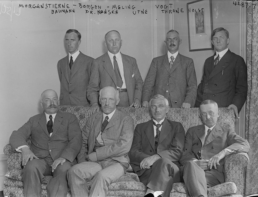 The Norwegian commission in the United States on July 25, 1917